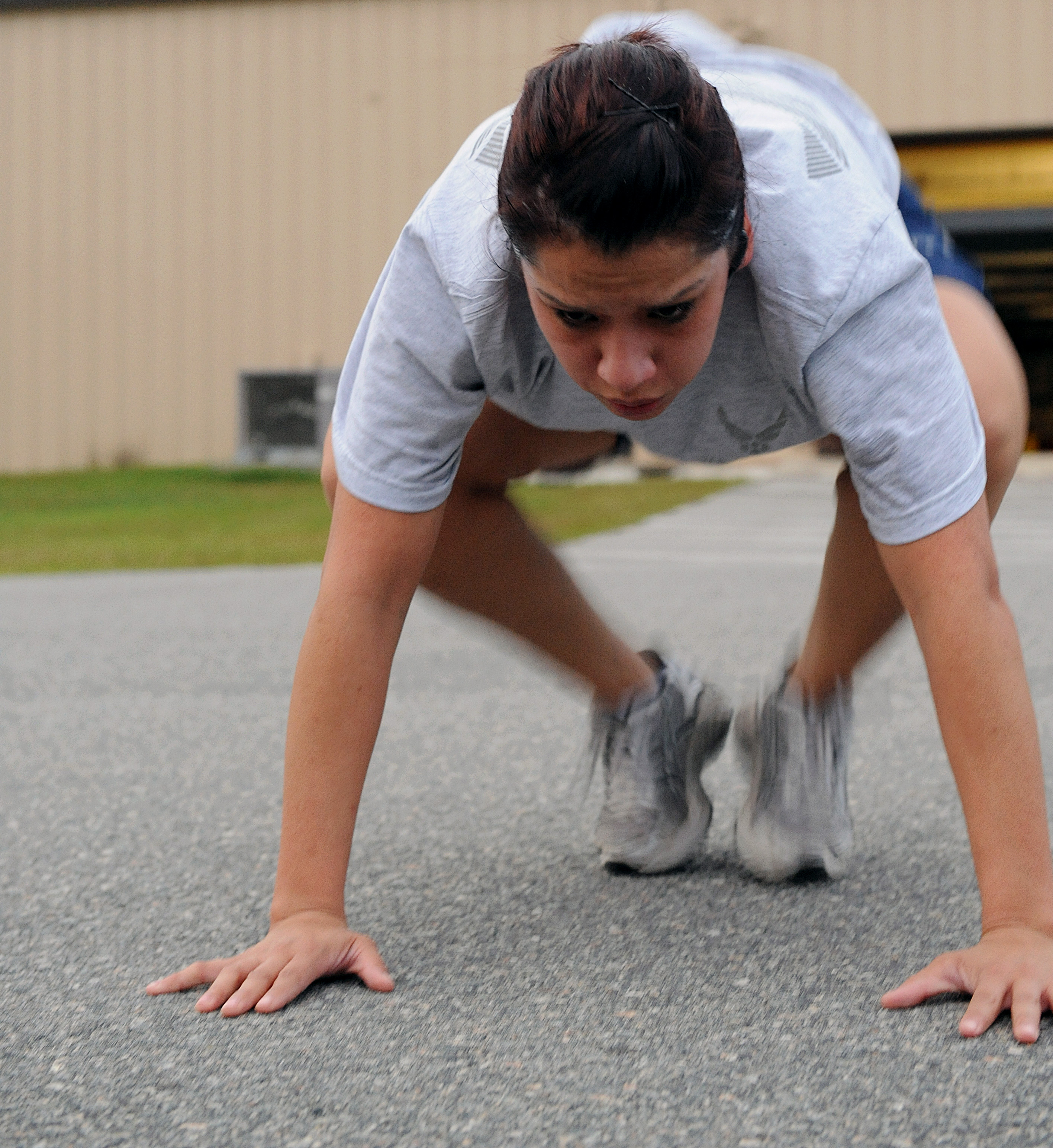 Focus MOODY AIR FORCE BASE Ga. -- Staff Sgt. Christina Kaun, 820th Security Forces commander support squadron NCO in-charge, performs a squat thrust exercise during the Airman 1st Class Leebernard Chavis memorial workout here Oct. 14. Airman Chavis was assigned to the 820th SFG and was killed in action in 2006. (U.S. Air Force photo by Airman 1st Class Joshua Green)